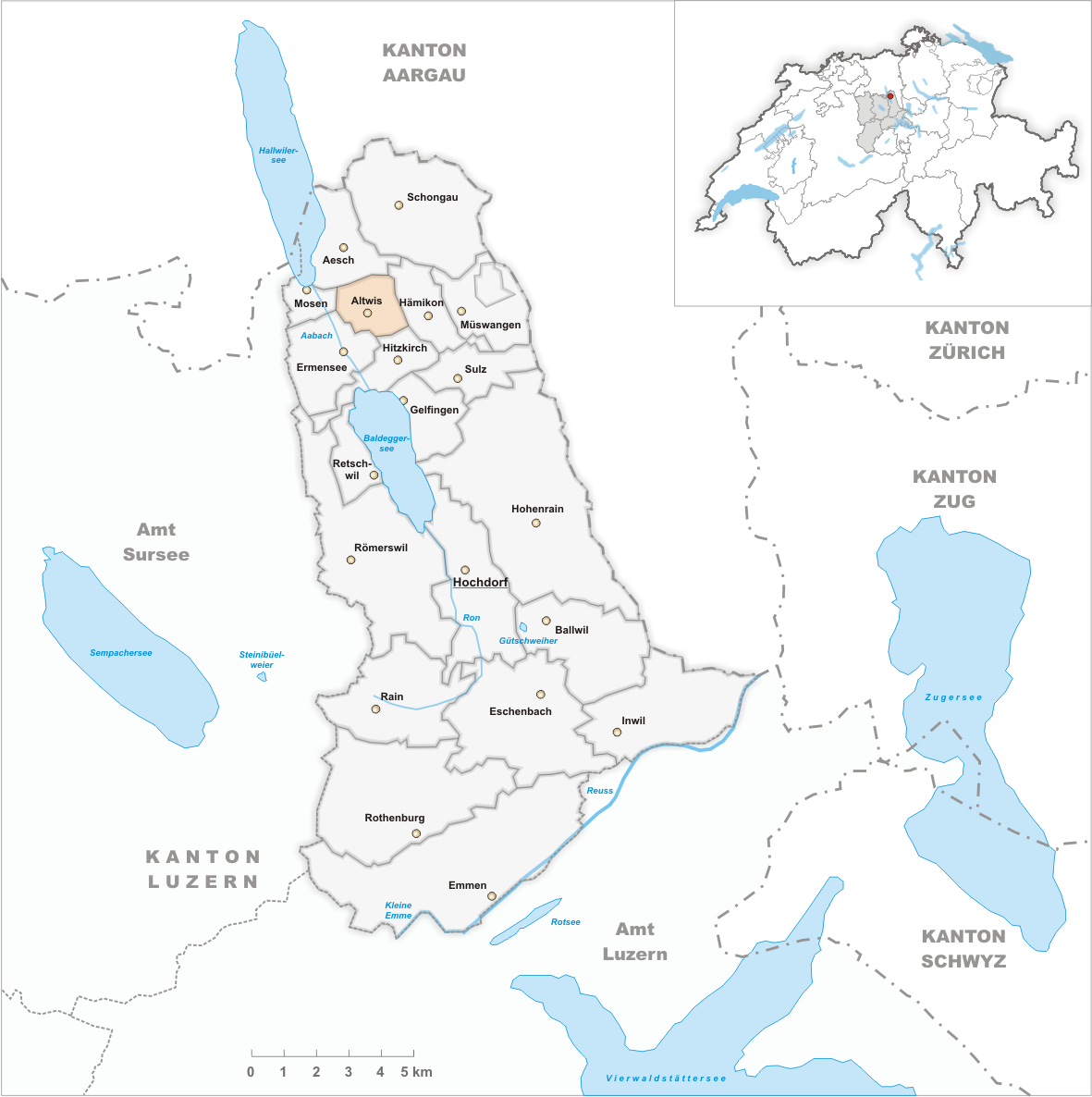 Municipality Altwis